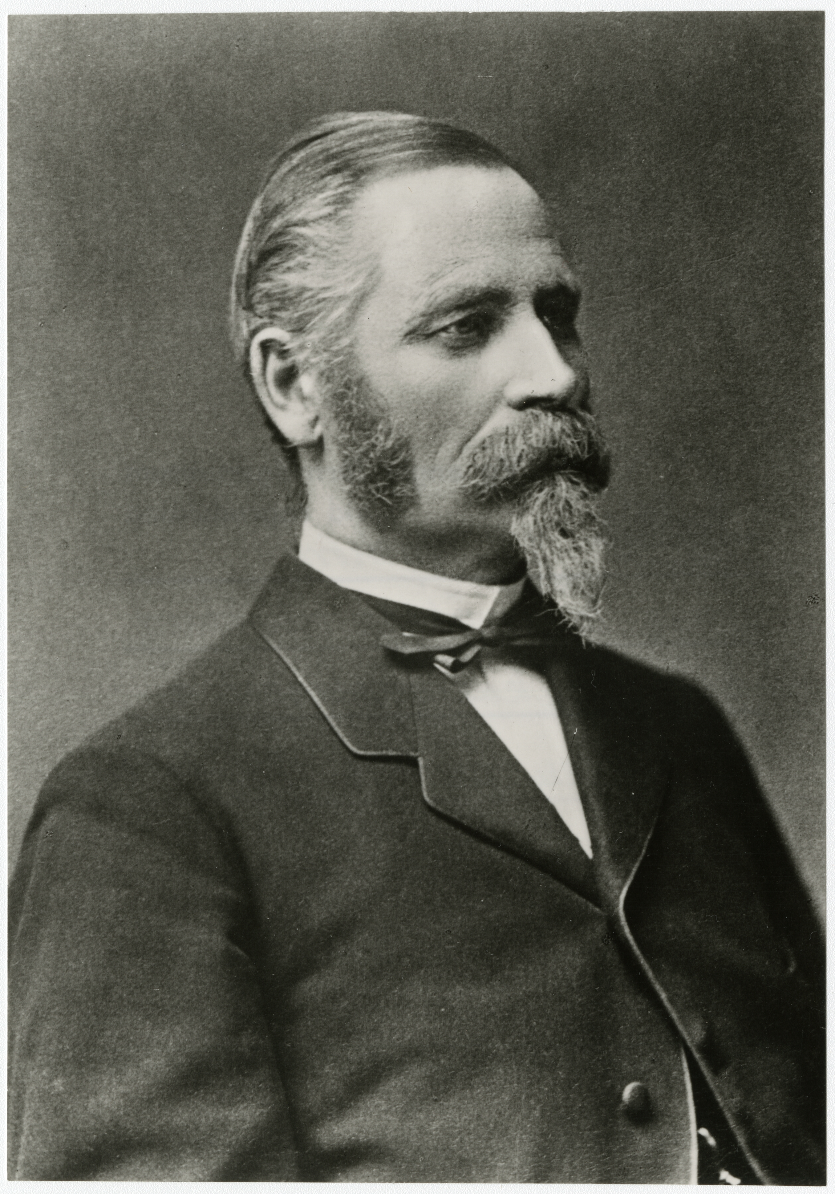 The Swedish surveyor and politician Johan Erik Nyström